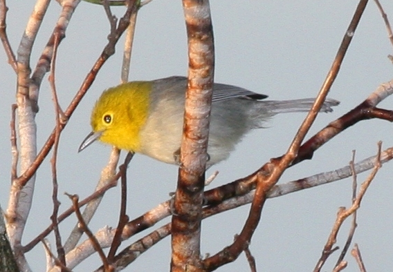 Yellow-headed Warbler (Teretistris fernandinae) cropped